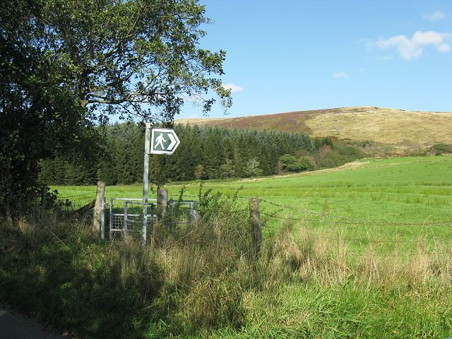 Mynydd Allt-y-grug and footpath Looking northeast from where the footpath meets the road the top of the mountain is visible behind the forest.